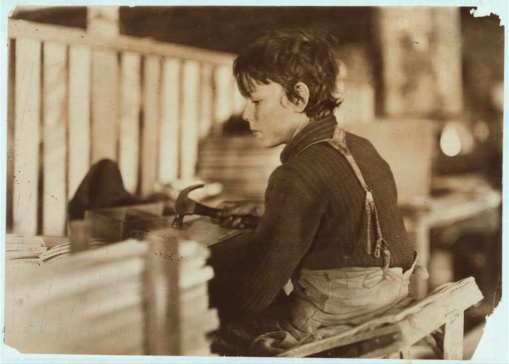 Boy making Melon Baskets, A Basket Factory, Evansville, Ind. Location: Evansville, Indiana.